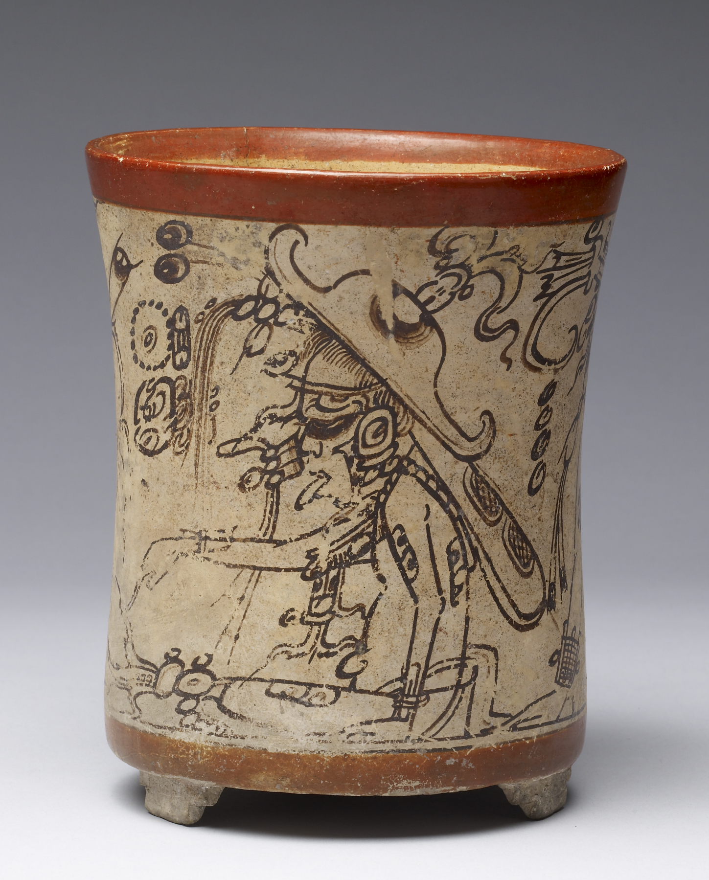 The painted vases of the Maya offer a window on a lost world. The black-on-cream coloring seen here is often referred to as "codex-style" because of its resemblance to ancient Maya books, or codices, all but four of which have been lost or destroyed. Here, three seated supernatural figures converse about a sacrificial ritual, indicated by the trident-shaped blade held by the most rotund one. Hieroglyphic texts name the characters: the figure with a sombrero-like hat and insect wings is Mok Chi', perhaps the patron deity of beekeepers. The three may represent different aspects of the deity art historians call "God A-prime," associated with sacrifice and self-decapitation.